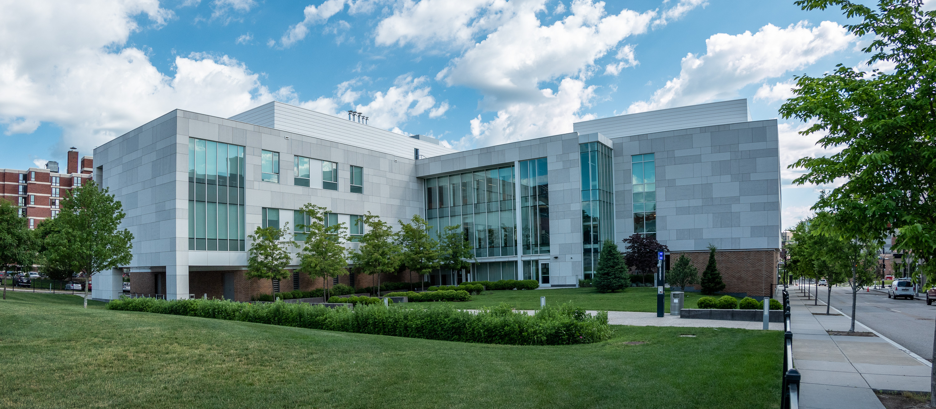 Johnson & Wales University, John J. Bowen Center for Science and Innovation, downtown Providence campus. Opened September 2016. Edward Rowse Architects.